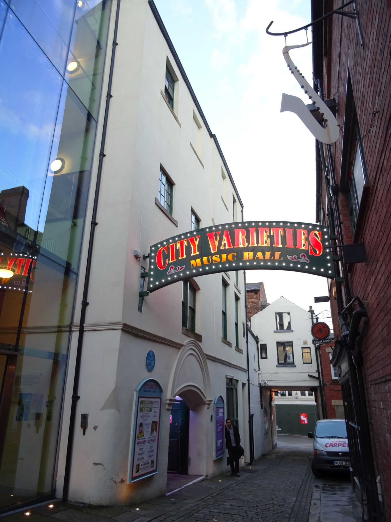 City Varieties Music Hall. Harry Lauder, Charlie Chaplin and Harry Houdini performed in this Music Hall built in 1865 for Charles Thornton on the site of the White Swan coaching inn. Famous venue of the "Good Old Days" first broadcast in 1953